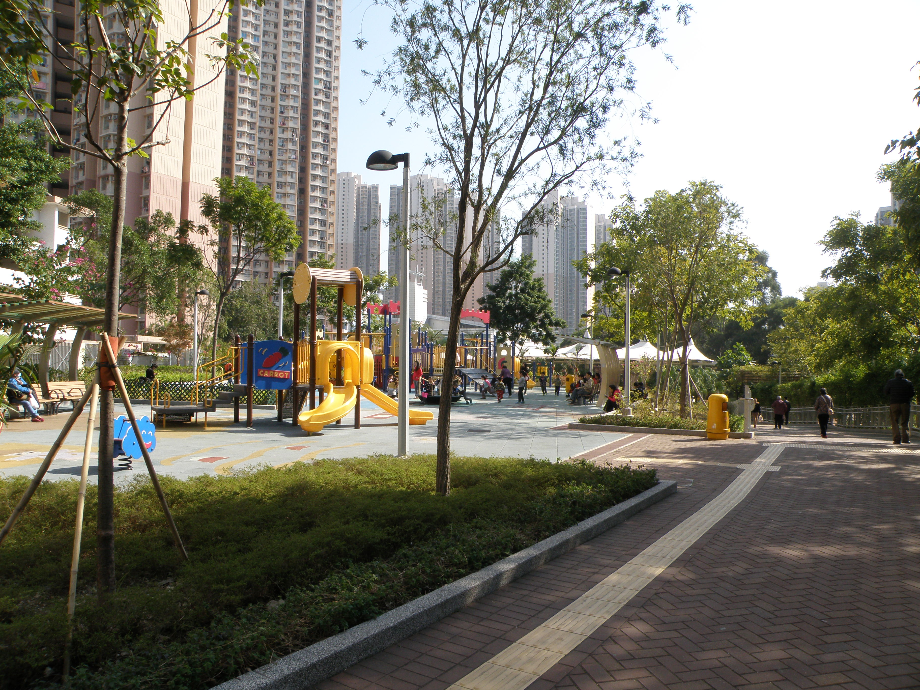 Sau Ming Road Park in Sau Mau Ping, Hong Kong.